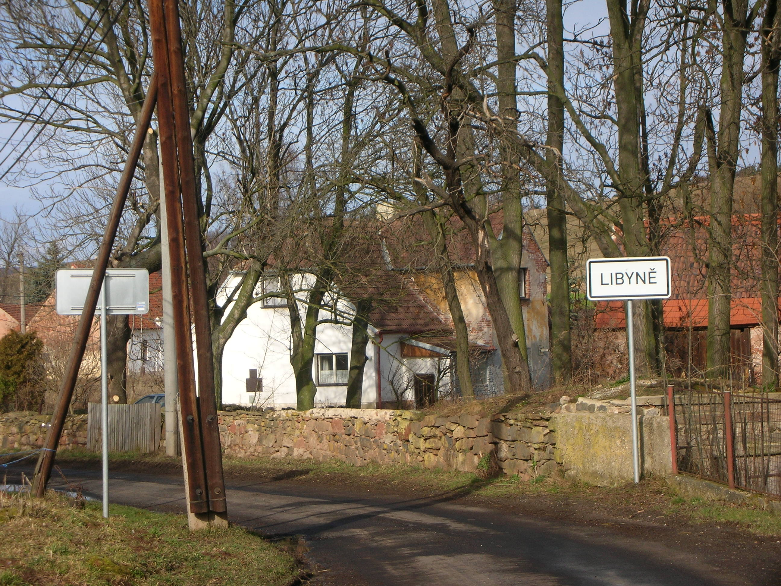 Village of Libyne in Czech Republic